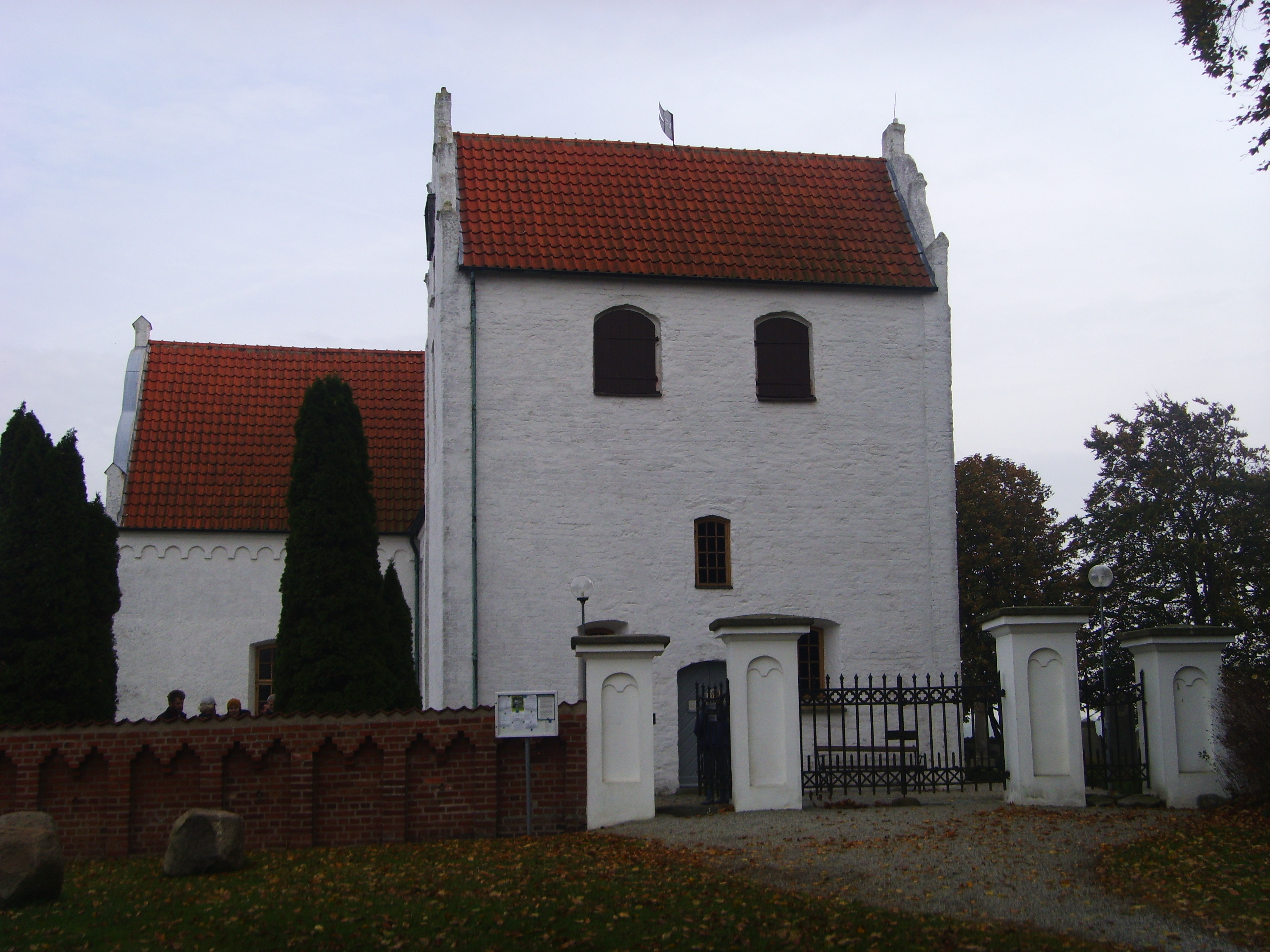 The church in Maglarp in south Skåne was built in the late 12th century and is one of the oldest brick churches in Scania. The church is built on the site of an older timber church. The chancel vault was decorated in the 14th century and the nave in 15th century. The turreted gables of the tower were built in 17th century. The extension on the north side of the nave was added around 1820.